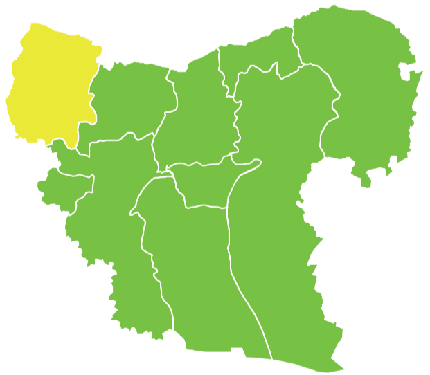 Map of Arfrin District — in the Governorate of Aleppo, northwestern Syria. Northern boundary along the Syrian-Turkish border.